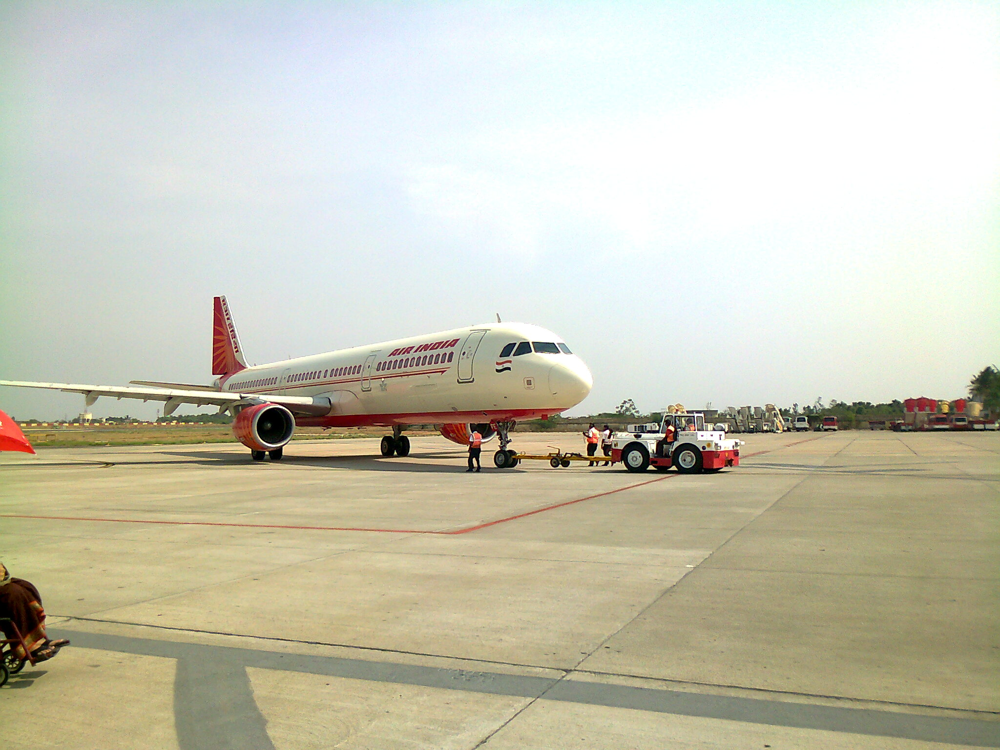 An Air India Airbus A321 registered VT-PPE at Coimbatore International Airport, Tamil Nadu, India.